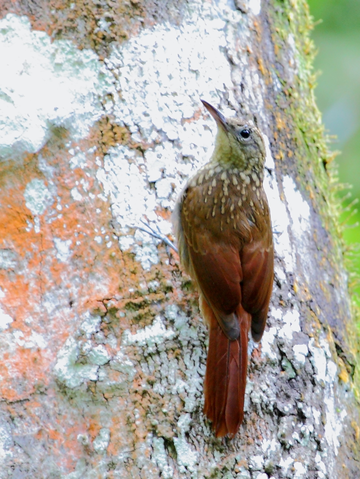 Atlantic Woodcreeper; Guaramiranga, Ceará, Brazil